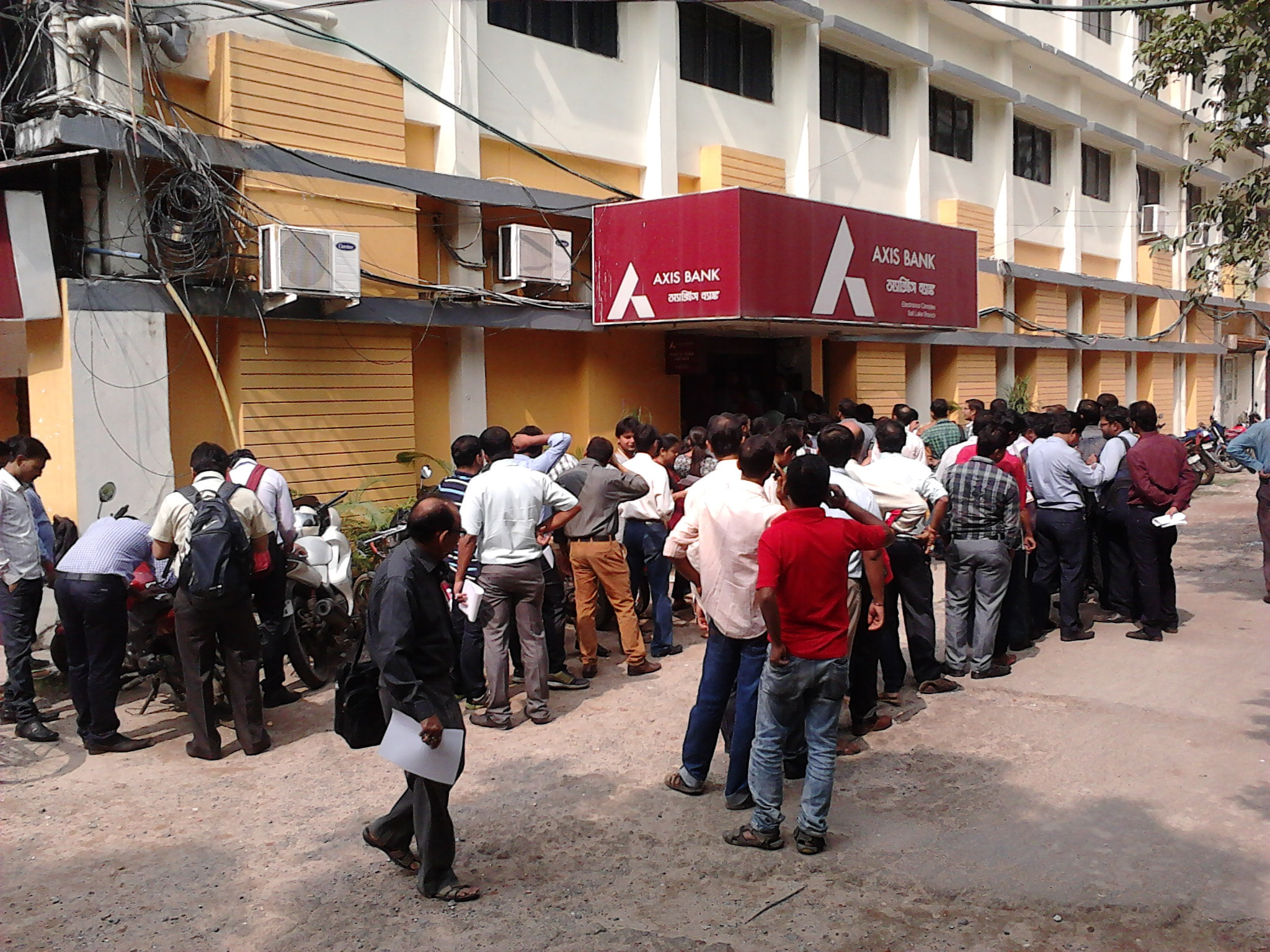 People queue outside a private bank to deposit and exchange 500 and 1000 currency notes at the sector V, Salt Lake City, Kolkata.